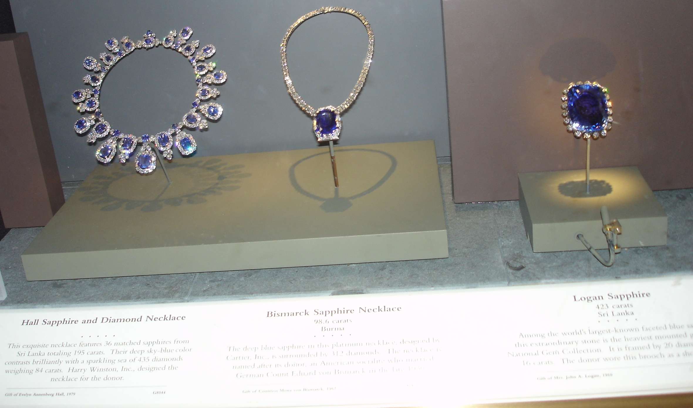 A picture I took on my senior trip